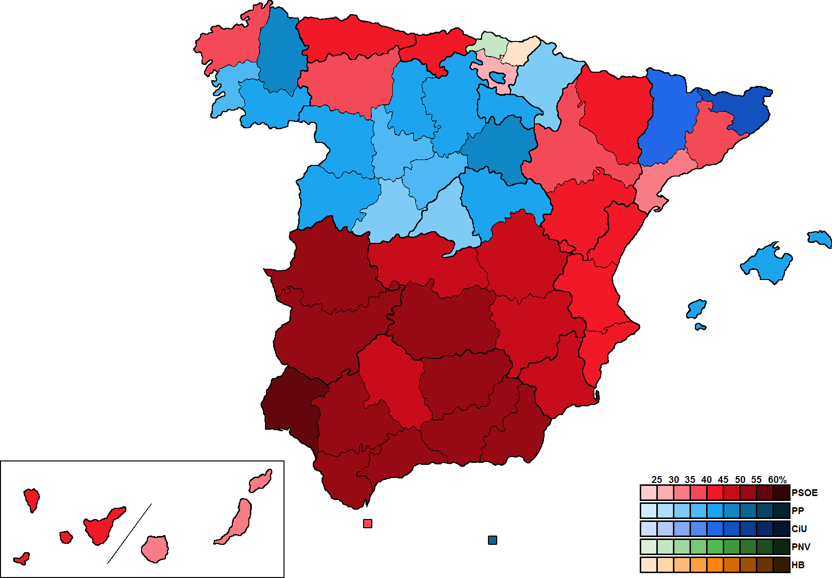 Provincial results for the 1989 Spanish general election.